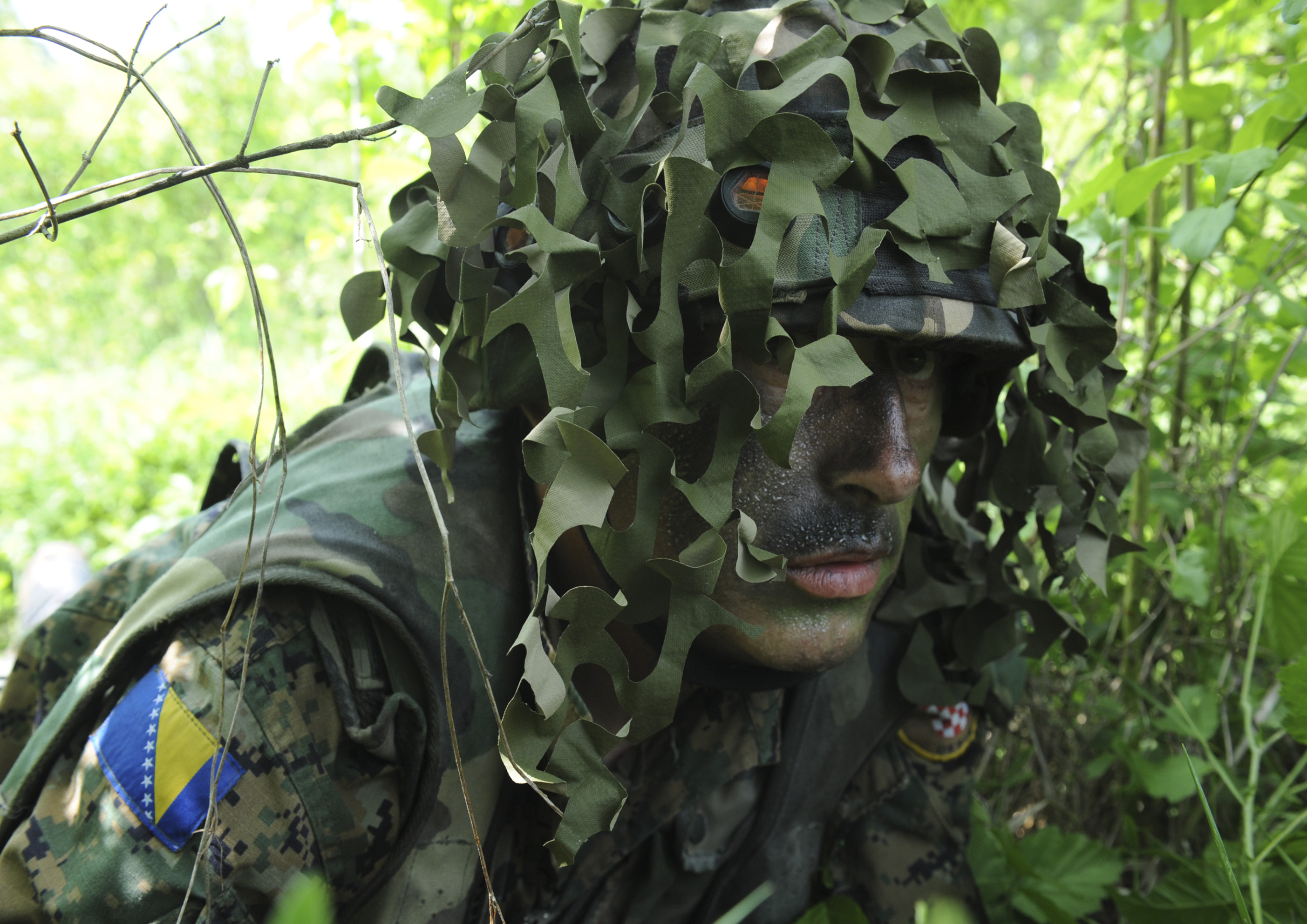 A soldier with the Armed Forces of Bosnia and Herzegovina, observes an enemy position from cover while on an ambush Situational Training Exercise during Immediate Response 2012 held at the Slunj Training Area 1 June. Immediate Response 2012 is a multinational tactical field training exercise that will involve more than 700 personnel primarily from the U.S. Army Europe’s 2nd Calvary Regiment and Croatian armed forces, with contingents from Albania, Bosnia-Herzegovina, Montenegro and Slovenia. Macedonia and Serbia will send observers to the exercise. The exercise is a part of U.S. European Command's joint training and exercise program designed to enhance joint and combined interoperability between the U.S. Army, U.S. Air Force and partner nations, and will help prepare participants to operate successfully in a joint, multinational, interagency, integrated environment. (U.S. Army Europe photo by Staff Sgt. Joel Salgado/Released)